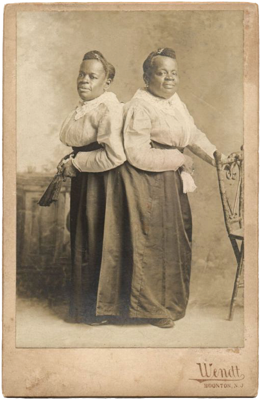 Millie and Christine McCoy